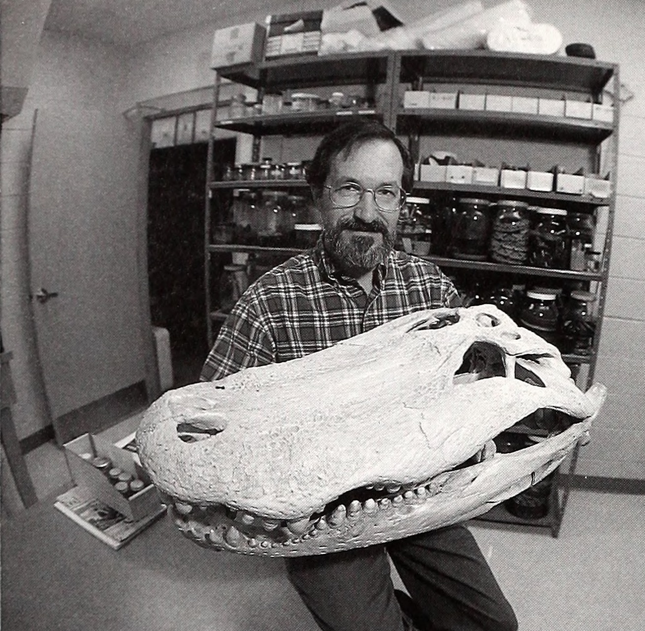 Curator Alvin Braswell shows off an alligator skull in the North Carolina Museum of Natural Sciences collection.